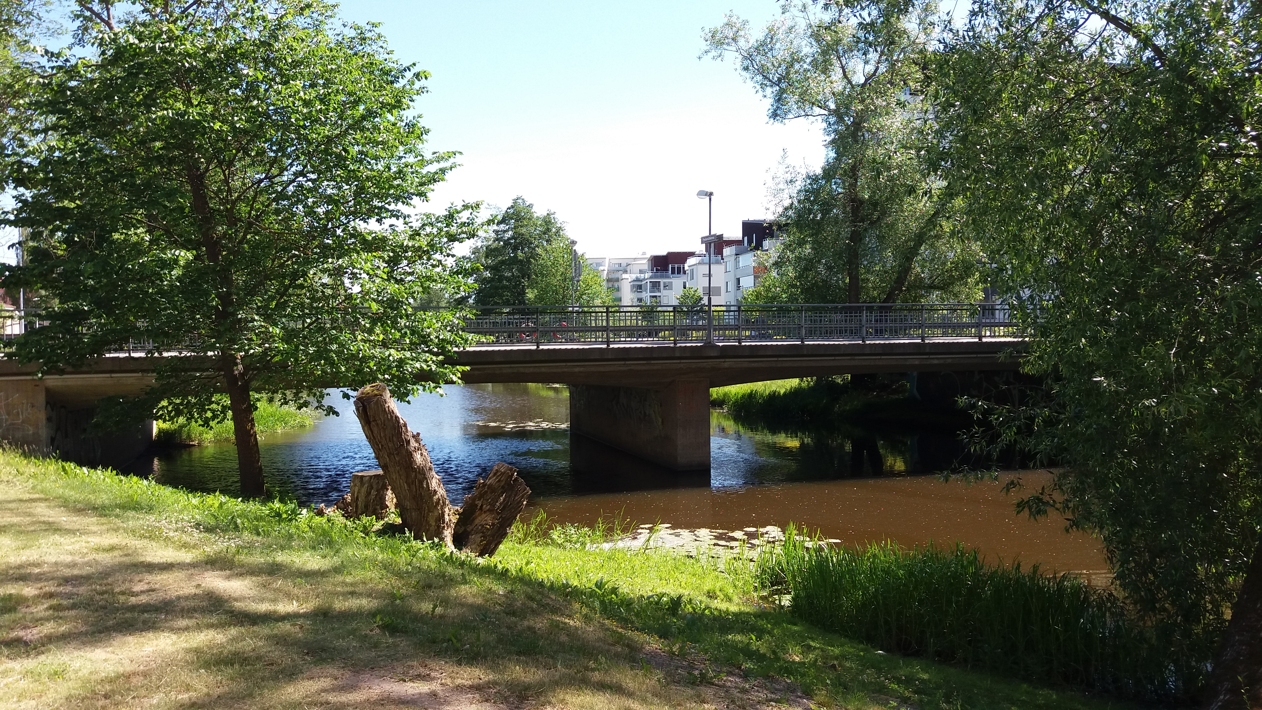 Fyrisvallsbron, Uppsala